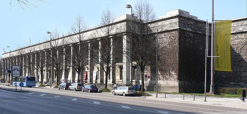 Prinzregentenstrasse near Haus der Kunst in Munich, Bavaria.